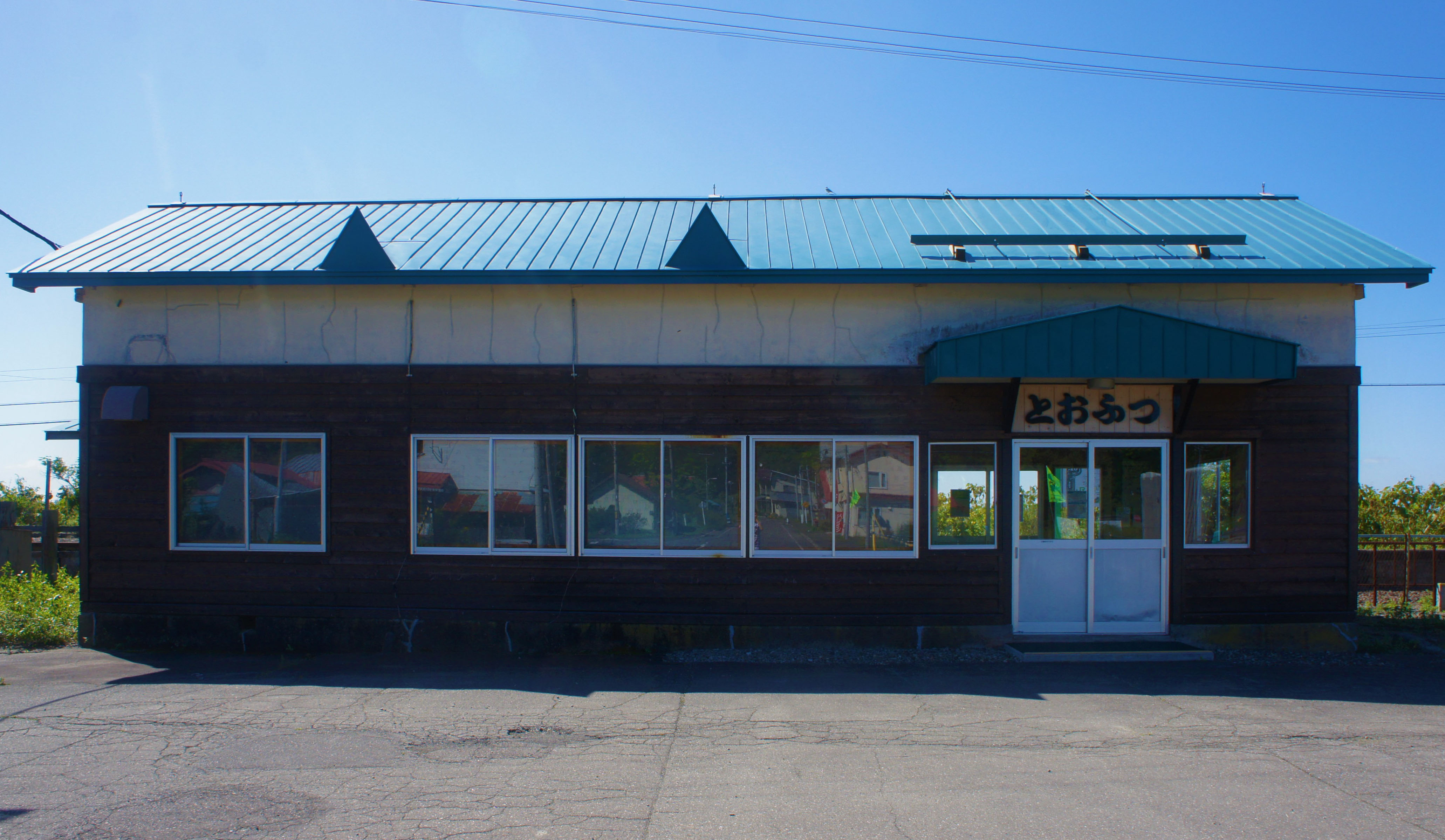 Station building of JR Nemuro-Main-Line Tofutsu Station